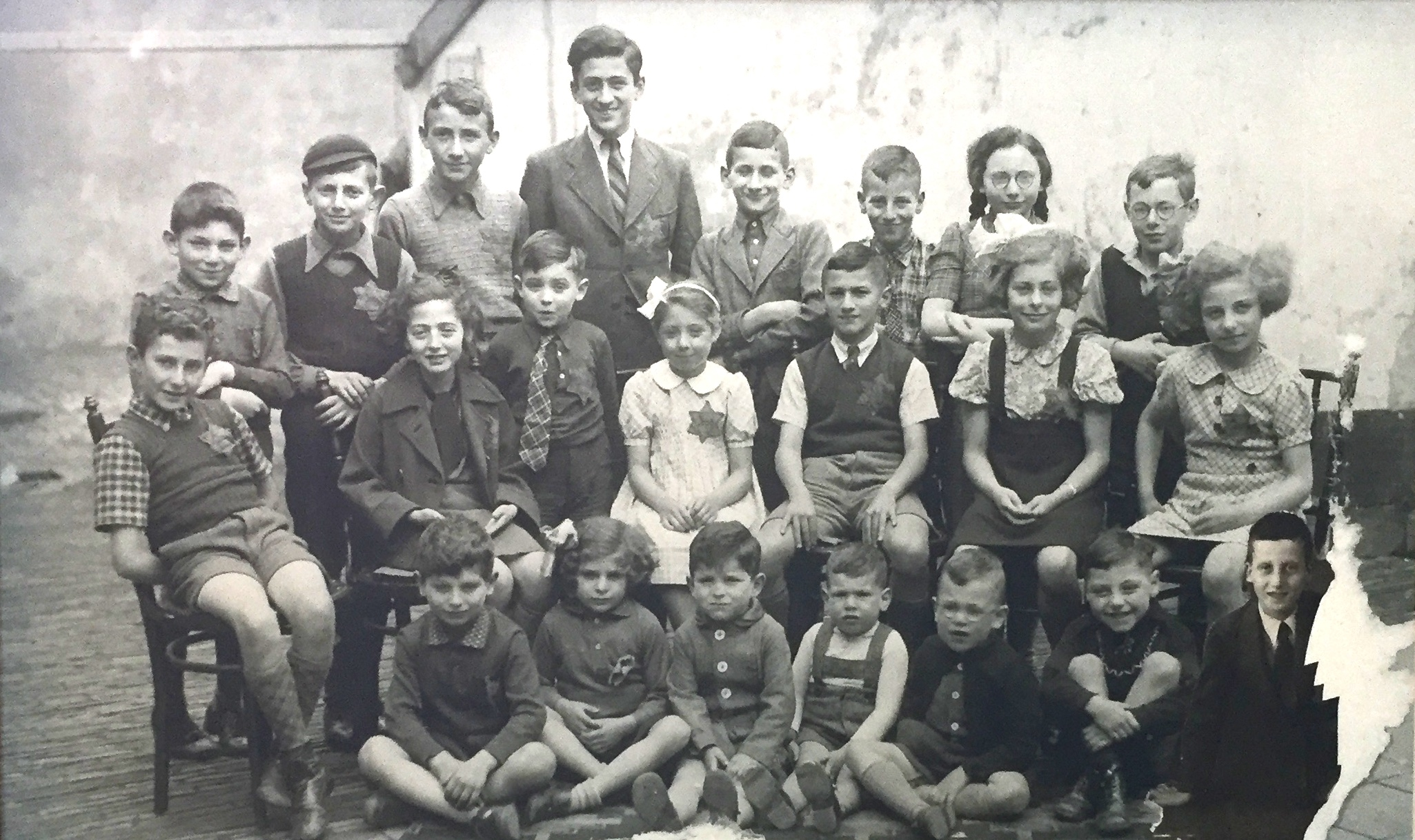 22 Jewish children in Deventer, 1942. Only one (Felice Polak) survived WW2